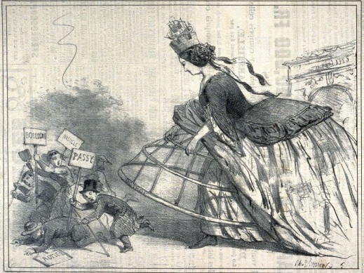 Uses crinoline fashions of the time as a visual metaphor for the expansion of urban Paris into the suburbs